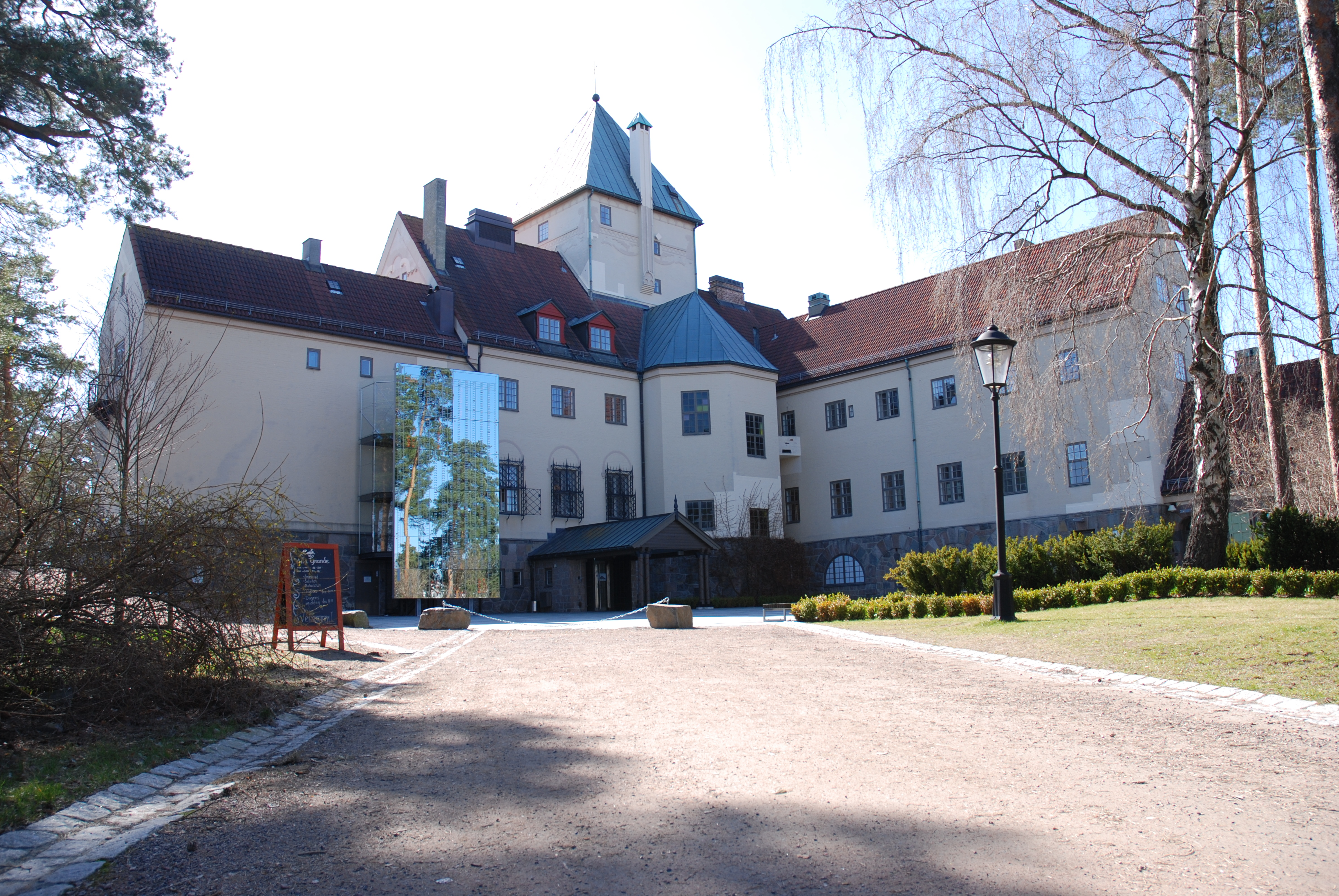 Villa Grande, a property on Bygdøy in Oslo, Norway. Used by Vidkun Quisling during World War II where he named it Gimle.